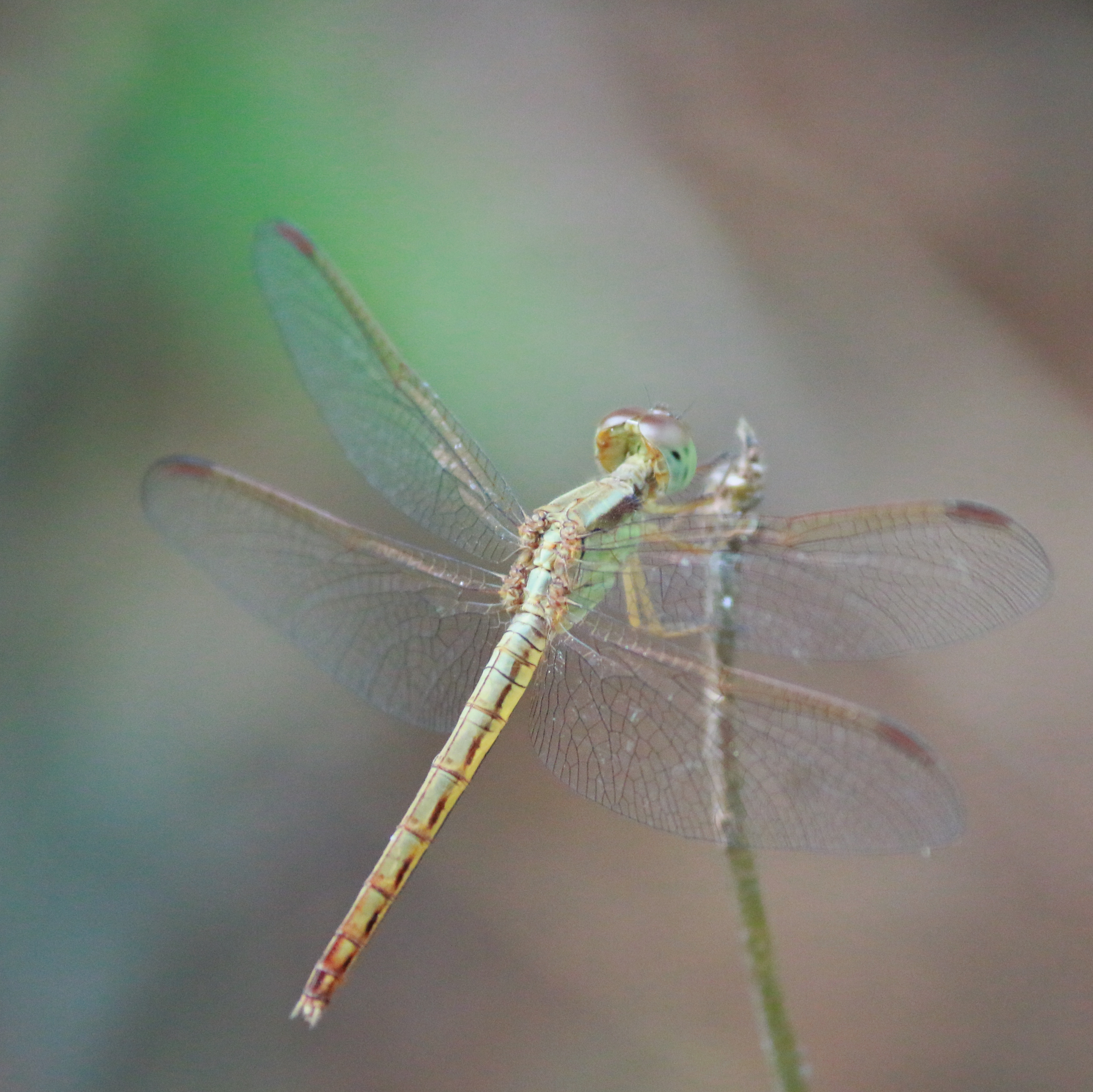 പുൽ തുരുമ്പൻ (Neurothemis intermedia)Paddy Field Parasol/Ruddy Meadow Skimmer/ Pale Yellow Widow March 2020,Palakkad